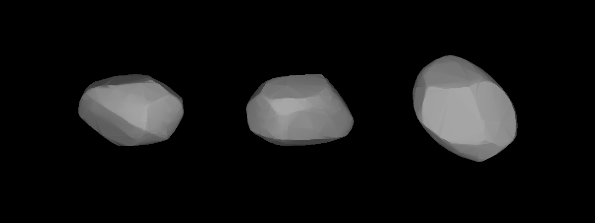 A three-dimensional model of 80 Sappho that was computed using light curve inversion techniques.